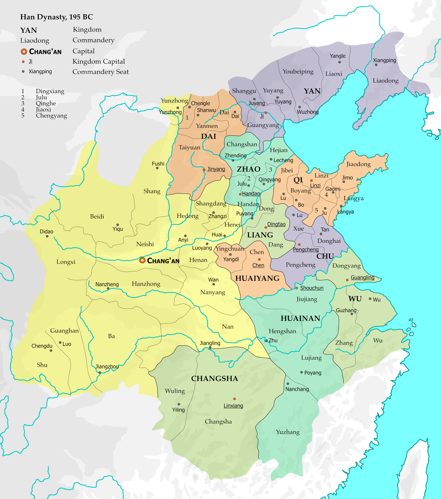 The map represents the situation of Western Han dynasty in the 12th year of Emperor Gao (195 BC). 10 kingdoms existed within the Han empire at the time, and with the exception of Changsha, all are headed by members of the imperial family. 15 commanderies in the central and western parts of the empire were directly administered by the imperial government. The borders are based on Zhou Zhenhe's Xihan Zhengqu Dili (西汉政区地理, "Administrative Geography of Western Han"), 1987. This file is the png version of File:Han dynasty Kingdoms 195 BC.svg.